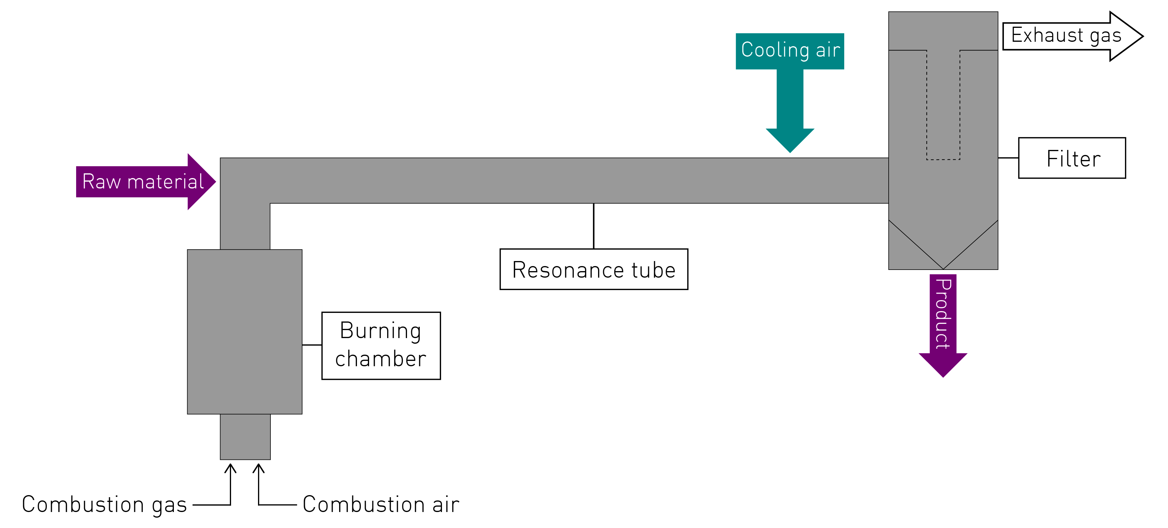 This figure shows the schematic structure of a pulsation reactor